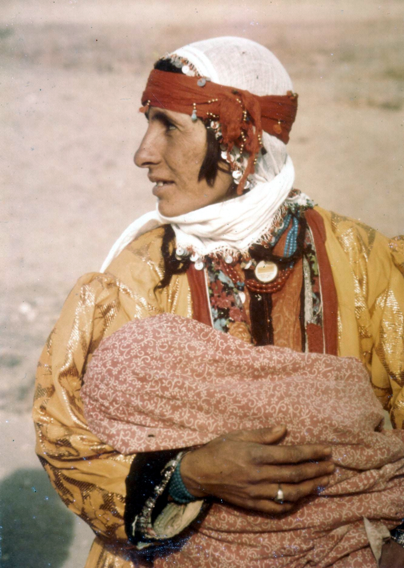 I took this photo myself in 1973